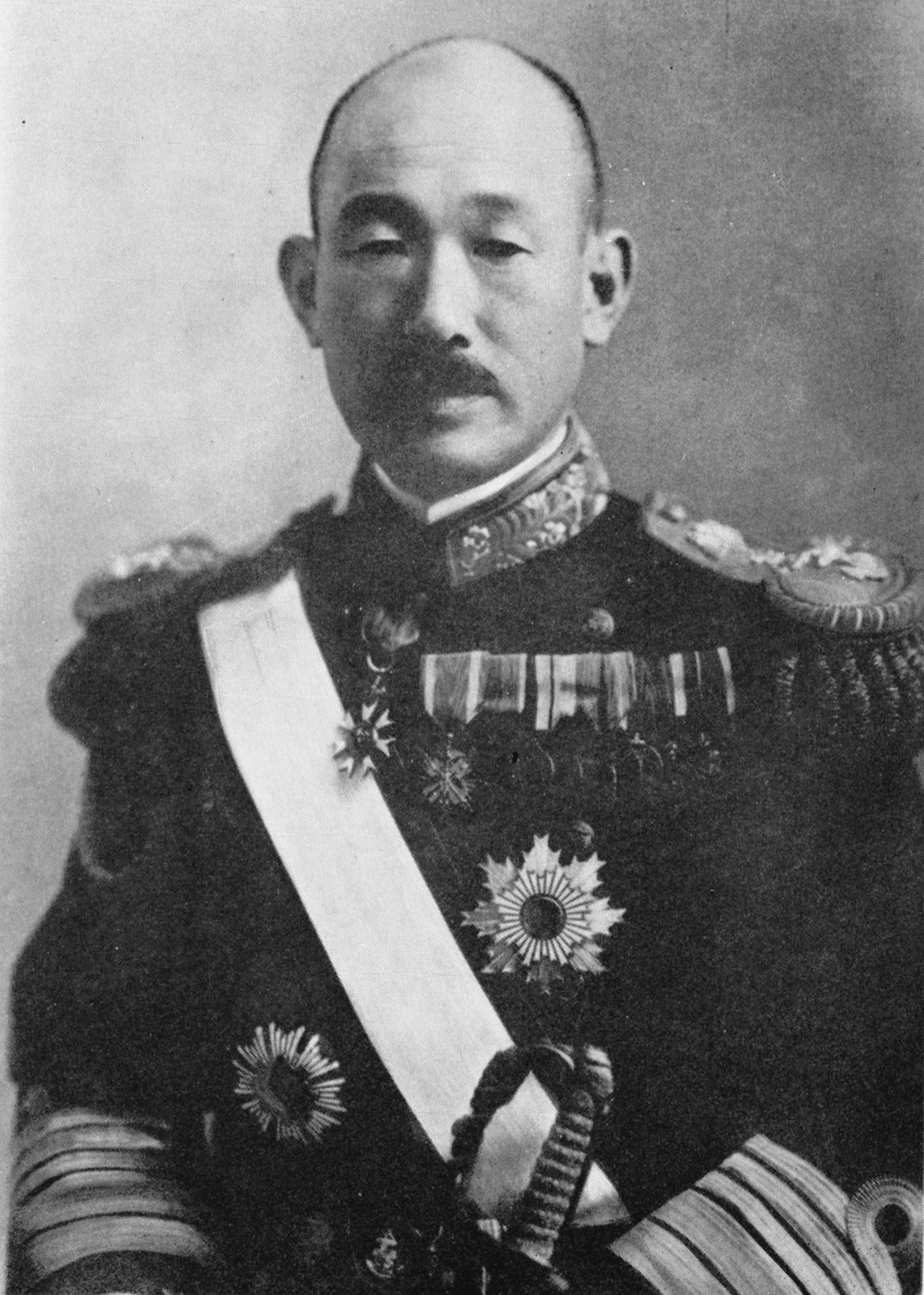 Takahashi is an Imperial Japanese Navy Full Admiral